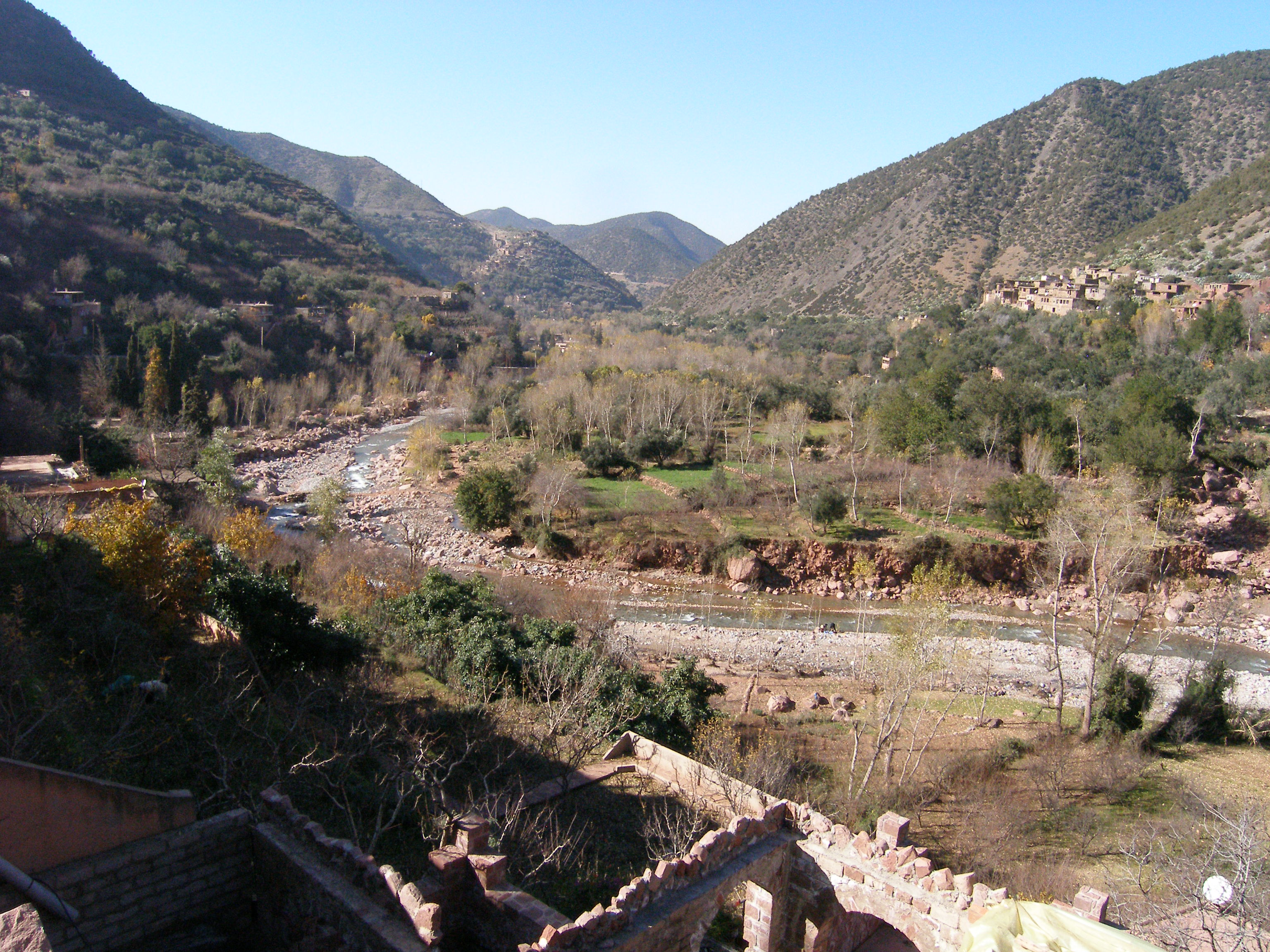 Ourika Valley with the Ourika River.